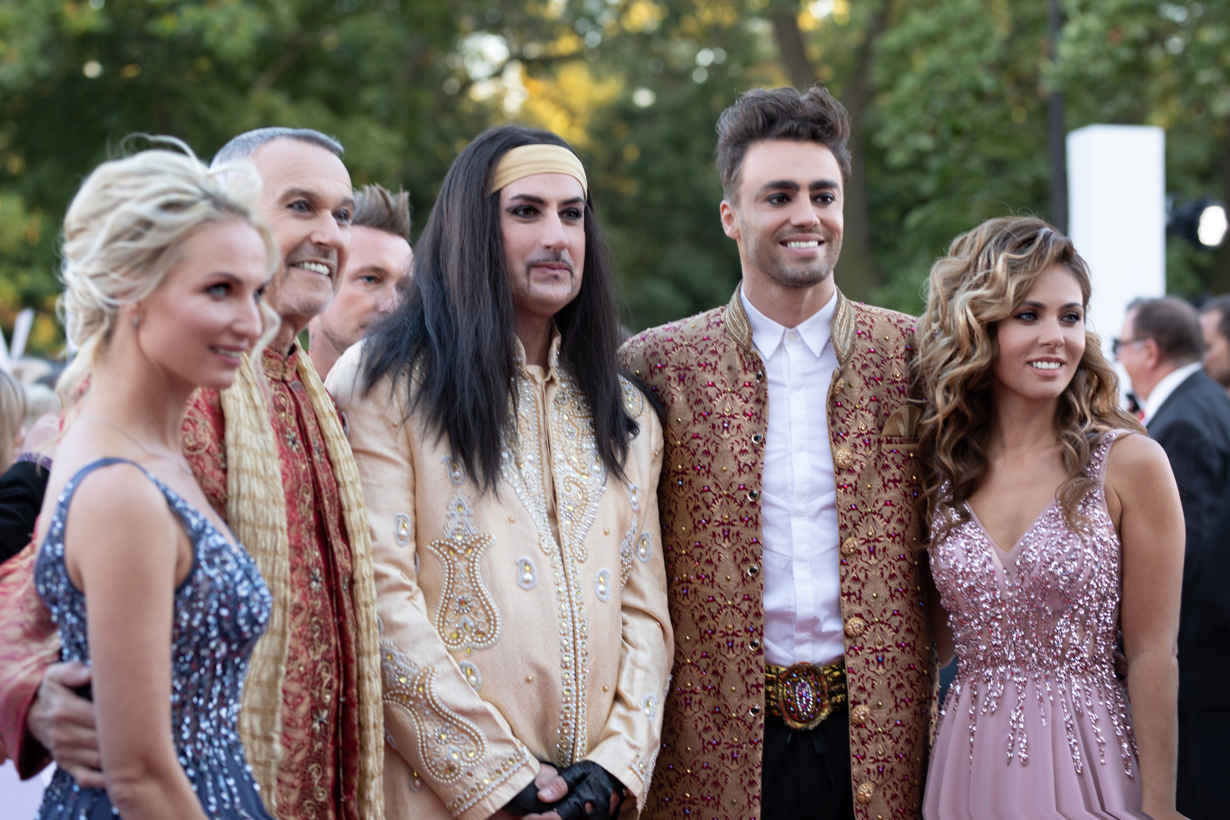 musical group Dschinghis Khan in St. Petersburg, red carpet, Dresden Opera Ball